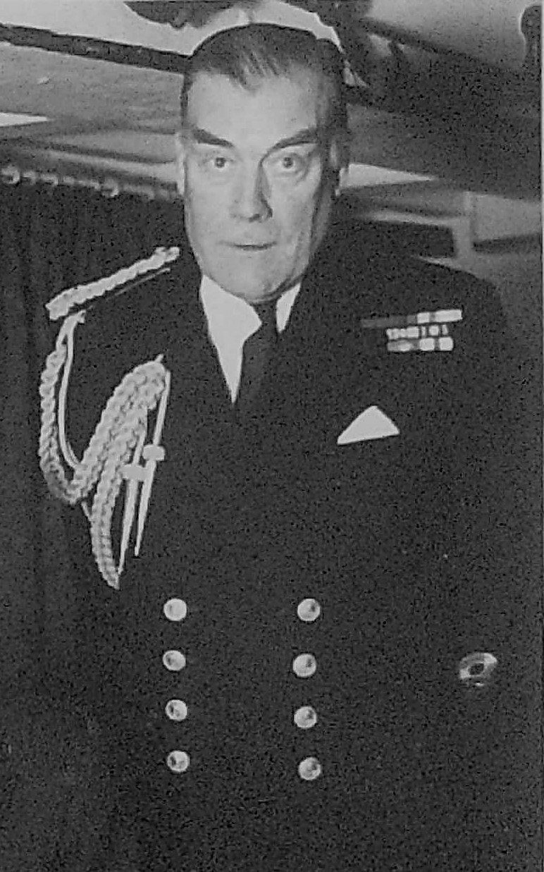 Hans-Helmut Klose signs the HMS Victory guest book on the occasion of his retirement, he he also went to sea under British command after World War II. Hans-Helmut Klose retires, signs the book at HMS Victory, seen with Admiral Sir David Williams